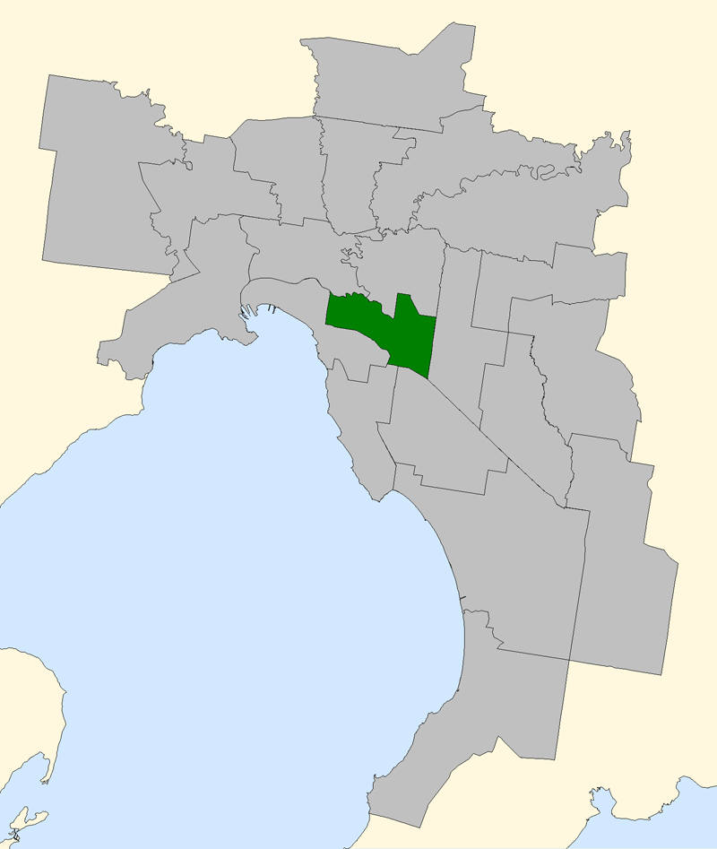 Division of Higgins 2007, with surrounding Melbourne divisions, based on official AEC data